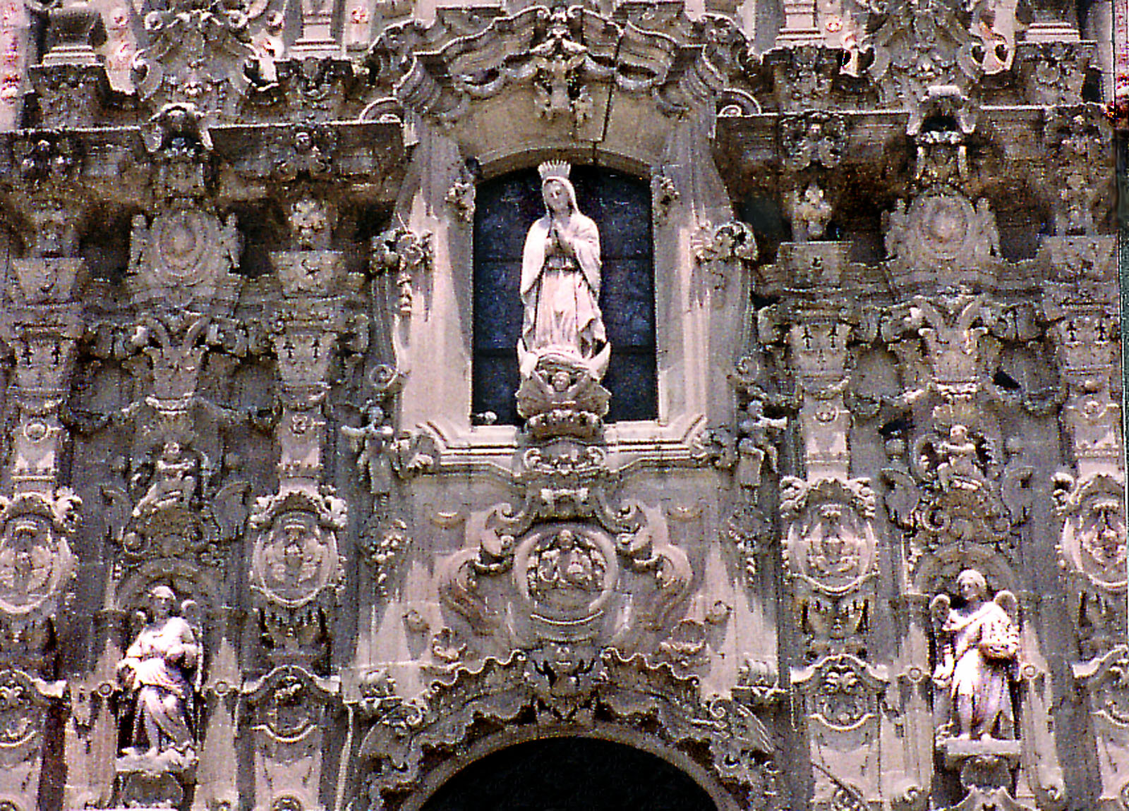 Taken by myself in 2000 for Aguascalientes, Aguascalientes, Anglo